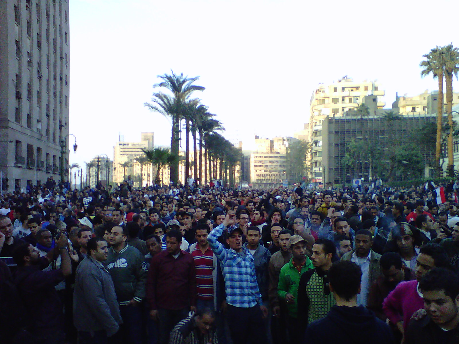 IMG00128-20110125-1648 :: 'Day of Anger' protests on 25 January 2011 in Midan Tahrir-Tahrir Square, Downtown Cairo.